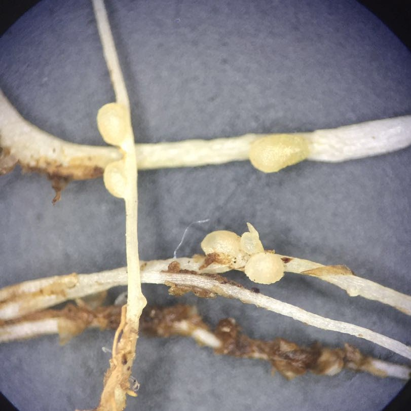 This image was taken from a sterioscope. The roots have been aligned so that the nodules, in which bacteria fix nitrogen, are clearly visible.